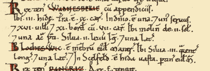 This is a capture of the Domesday entry for a hide referred to as Shelfield in the Manor of Walsall.